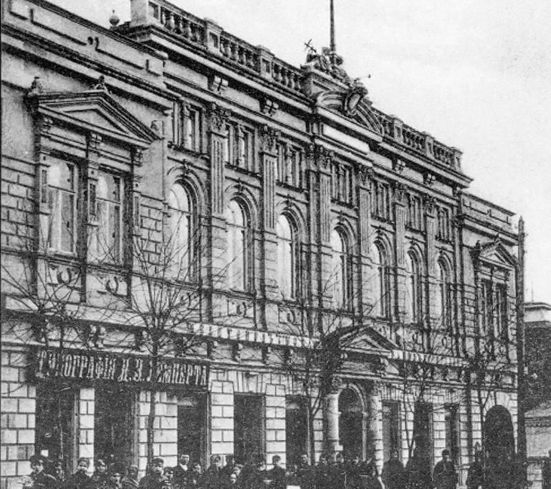 Former Melitopol Mutual Credit Society